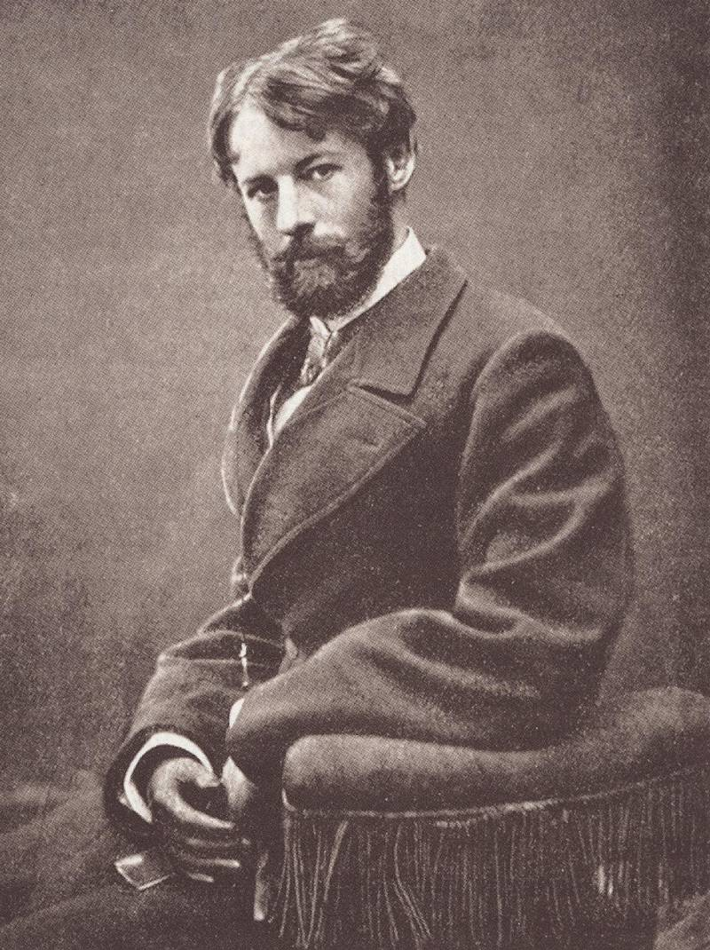 Wilhelm von Gloeden (1856-1931), self-portrait.